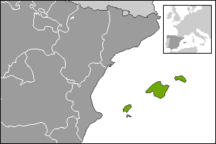 Map extent is fit to NUTS ES5 area (Eastern Spain).